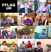 Parents Talking Collage of various thumbnail images produced in 1996 from the 1990 FFLAG video 'Parents Talking and appeared on the first web site in 1997. The video image is published online at FFLAG archive web site. The video can be viewed online free of charge at Manchester Parents Group, a FFLAG local group.